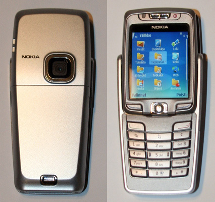 Nokia E70 cell phone front/back